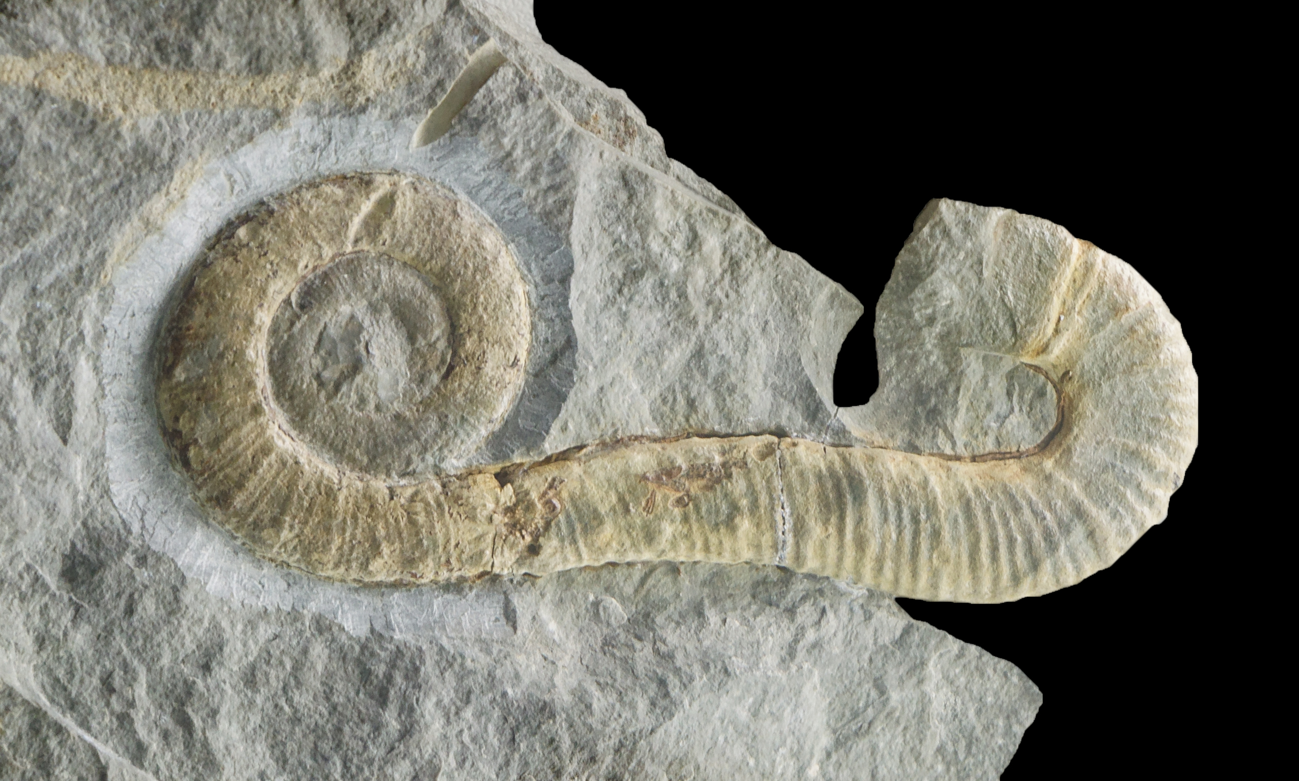 Macroscaphites tirolensis (Uhlig, 1887); Puezmergel, Barremian, Lower Cretaceous, Puez; Museum de Gherdëina, Urtijëi, South Tyrol, Italy.